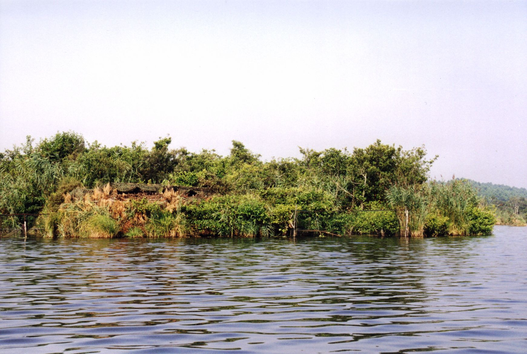 "Le courant d'Huchet" at the beginning